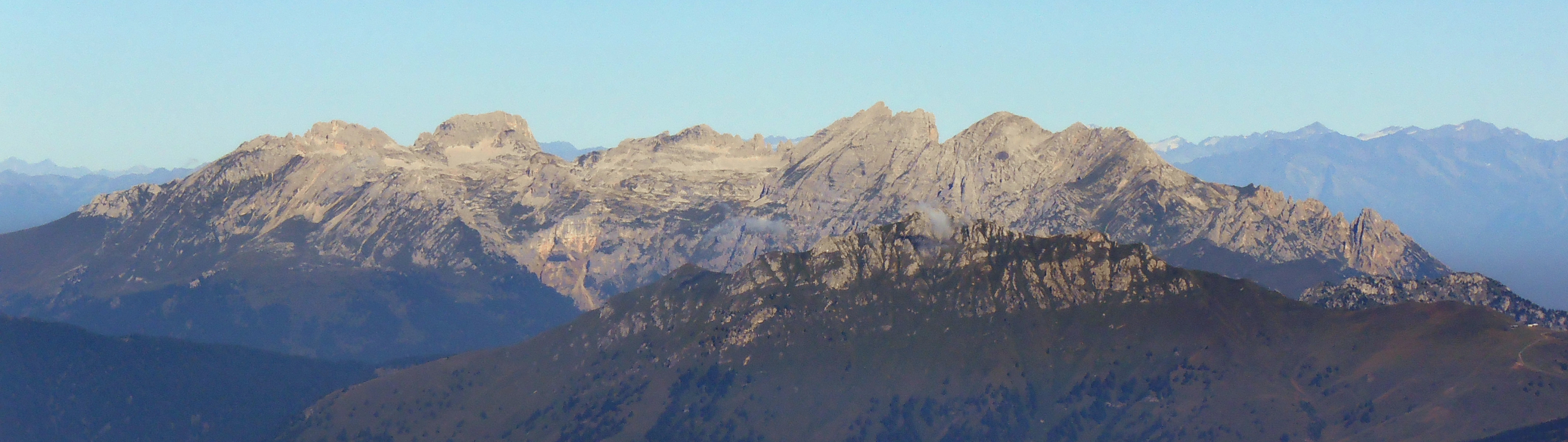 Latemar Group from SE (Pala group)